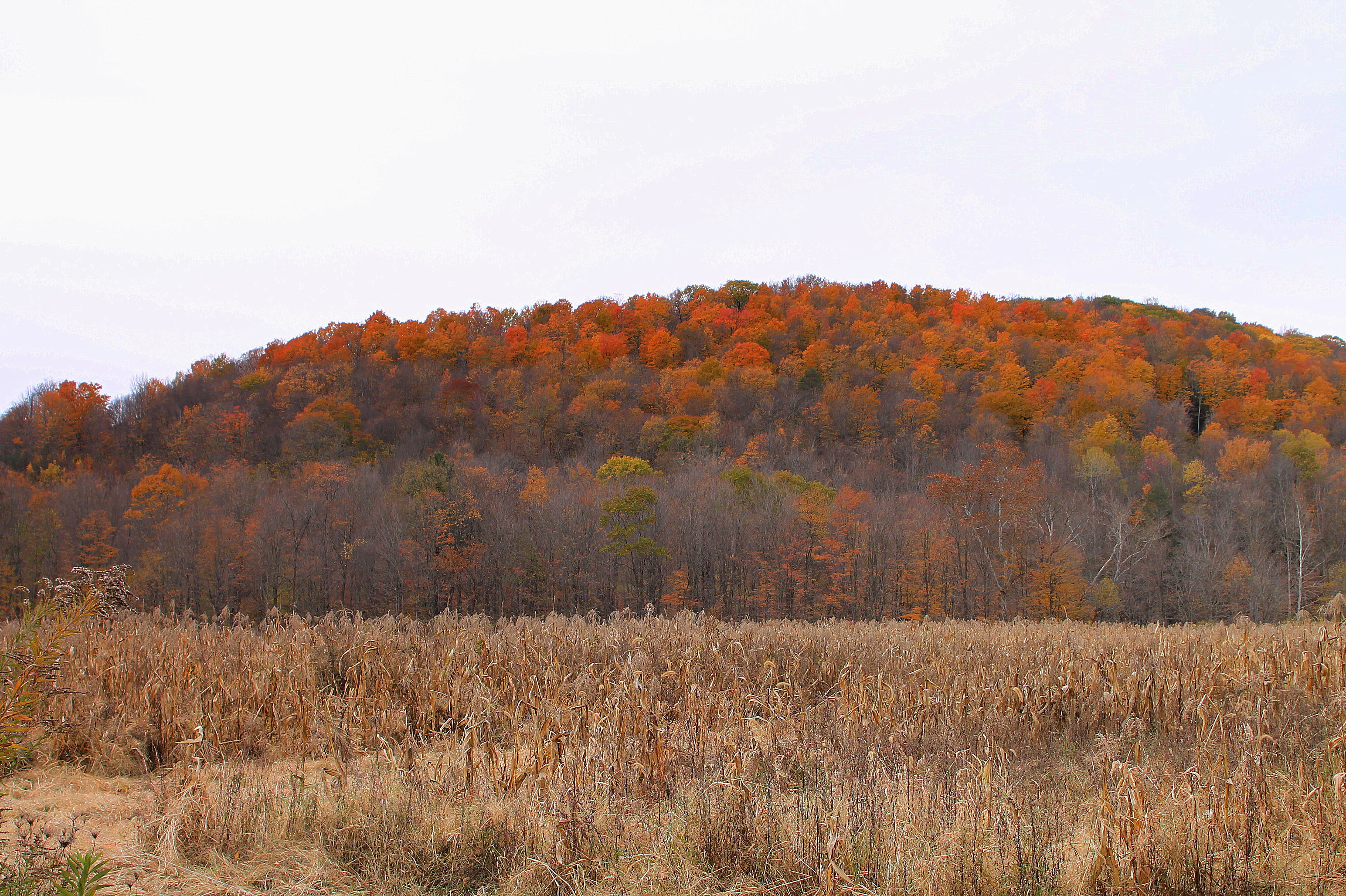 Scenery of Noxen, Pennsylvania looking southwest to Grassy Ridge